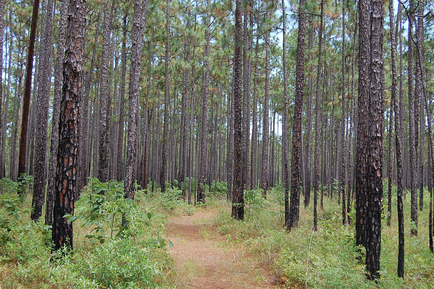 Hiking trail in Francis Marion National Forest — near Charleston, South Carolina.